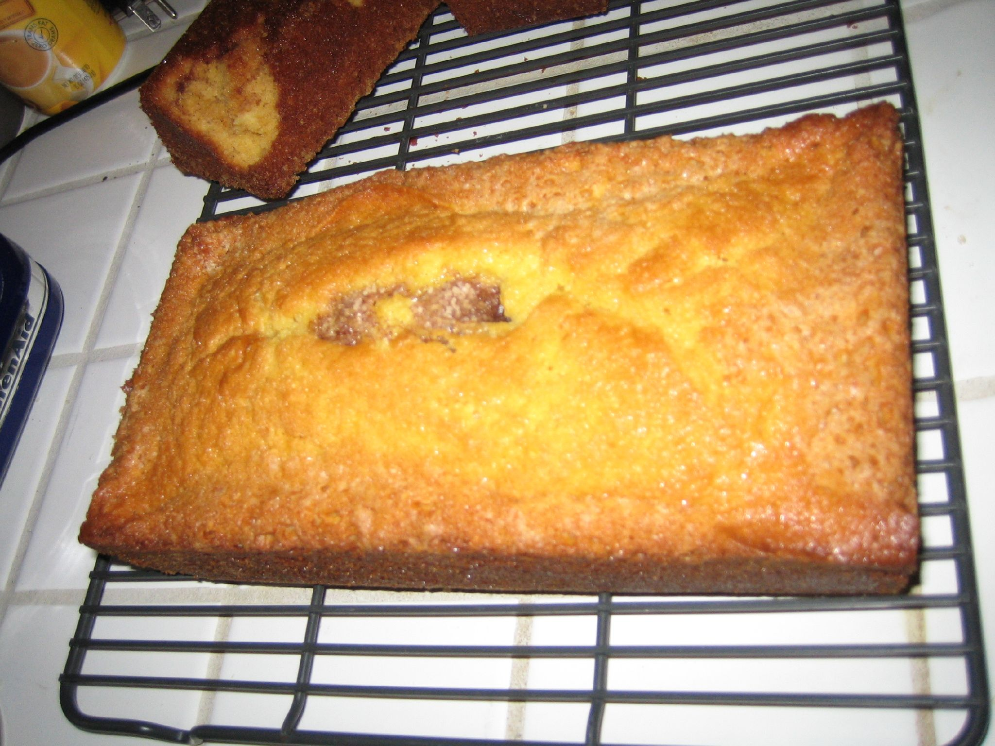 "Amish Friendship Bread", with cinnamin sugar on top